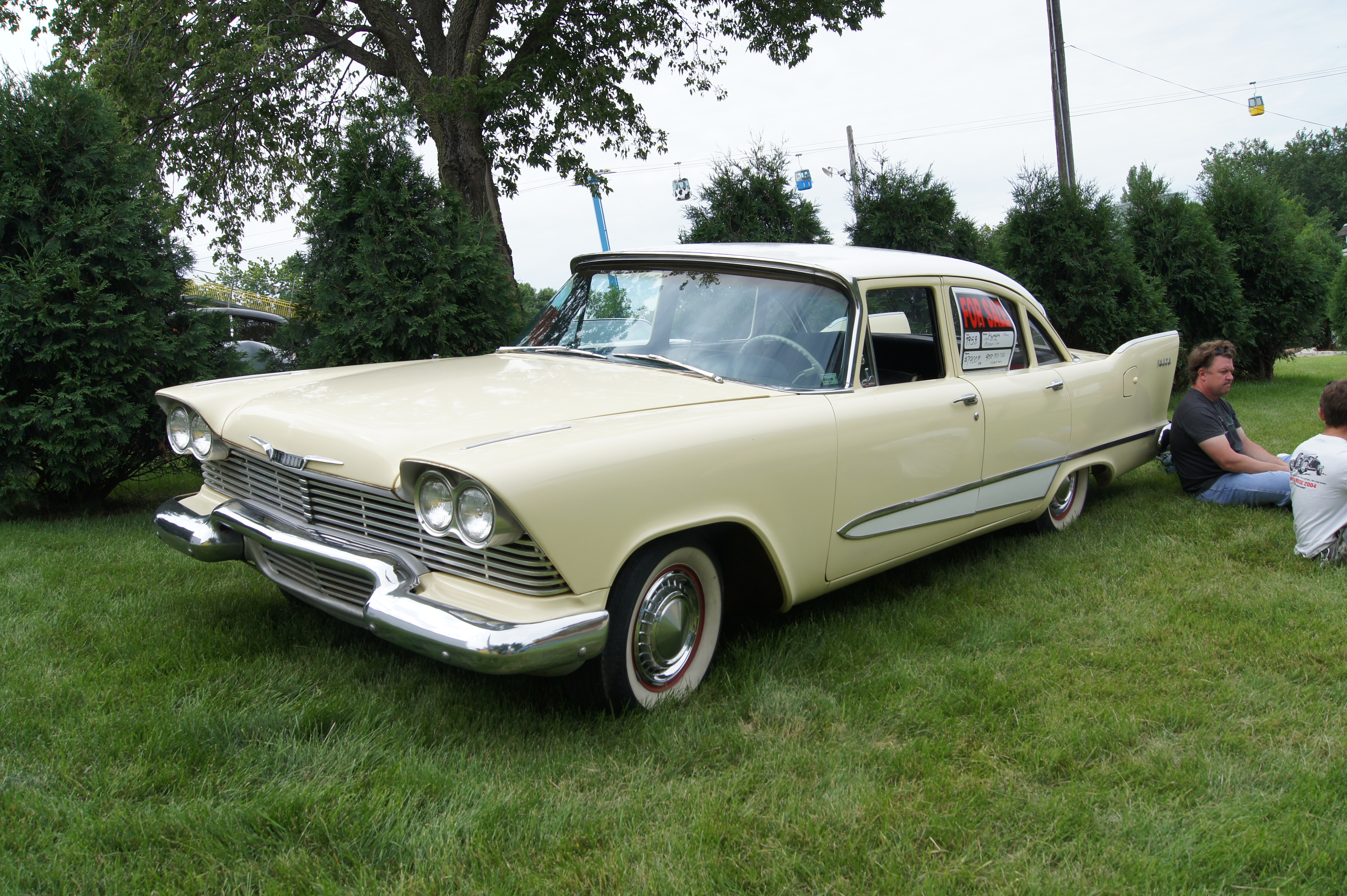 Minnesota Street Rod Association 39th Annual "Back to the Fifties" June 2012 Minnesota State Fairgrounds St. Paul MN Thousands of car pictures at the link below